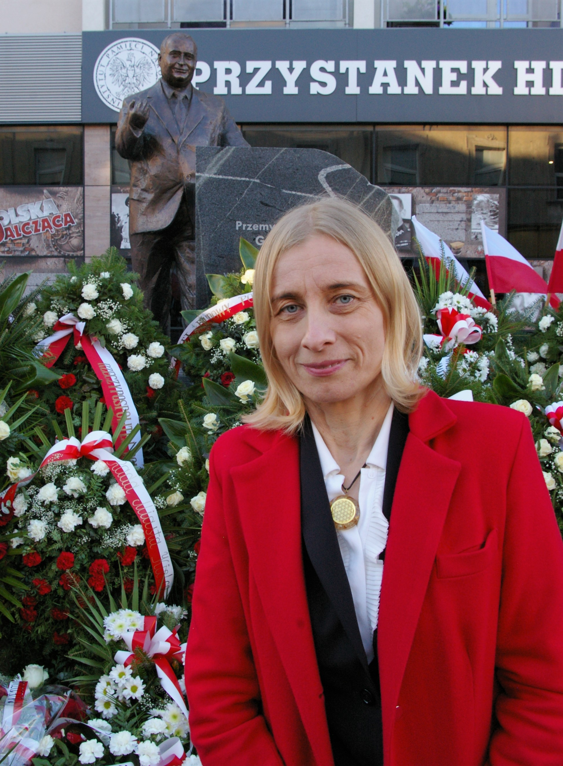 Beata Gosiewska - Polish politician, local government activist - unveiling ceremony of the monument to the husband Przemysław Gosiewski in Kielce, October 27, 2019.